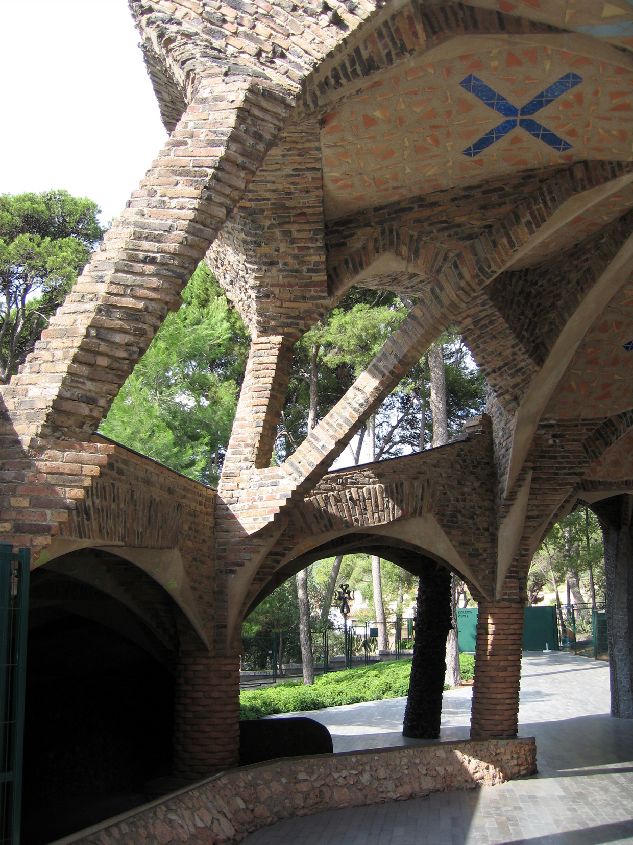 Crypt of the unfinished chapel of Antoni Gaudí in the Colònia Güell in Santa Coloma de Cervelló (Catalonia).